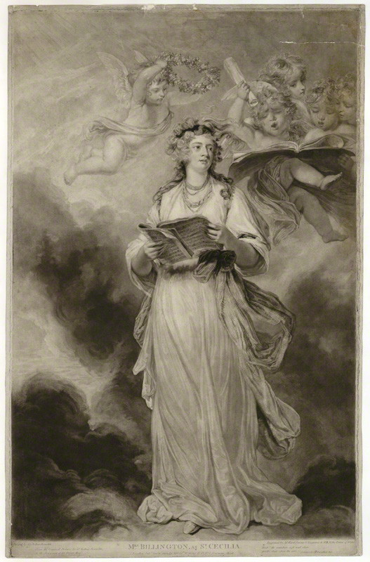 Elizabeth Billington (née Weichsel)